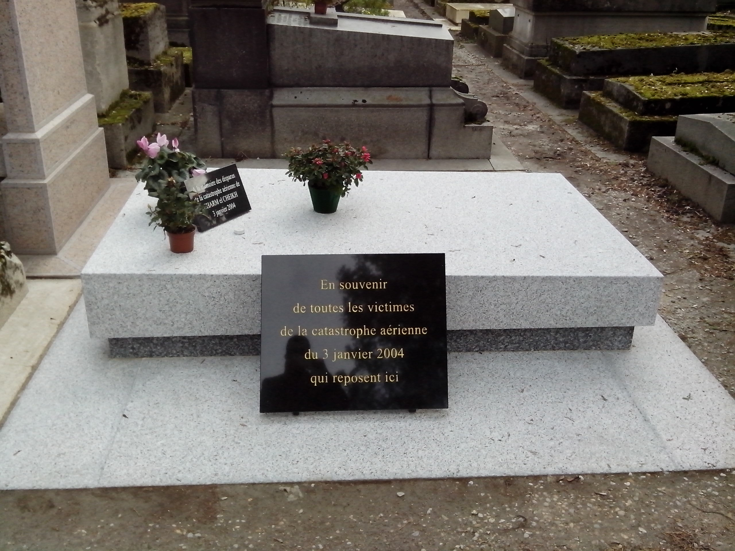 Monument to the victims of the Flash Airlines Flight 604 plane crash in the Gulf of Aqaba 3 January 2004. Egypt, Sharm-El-Sheikh.